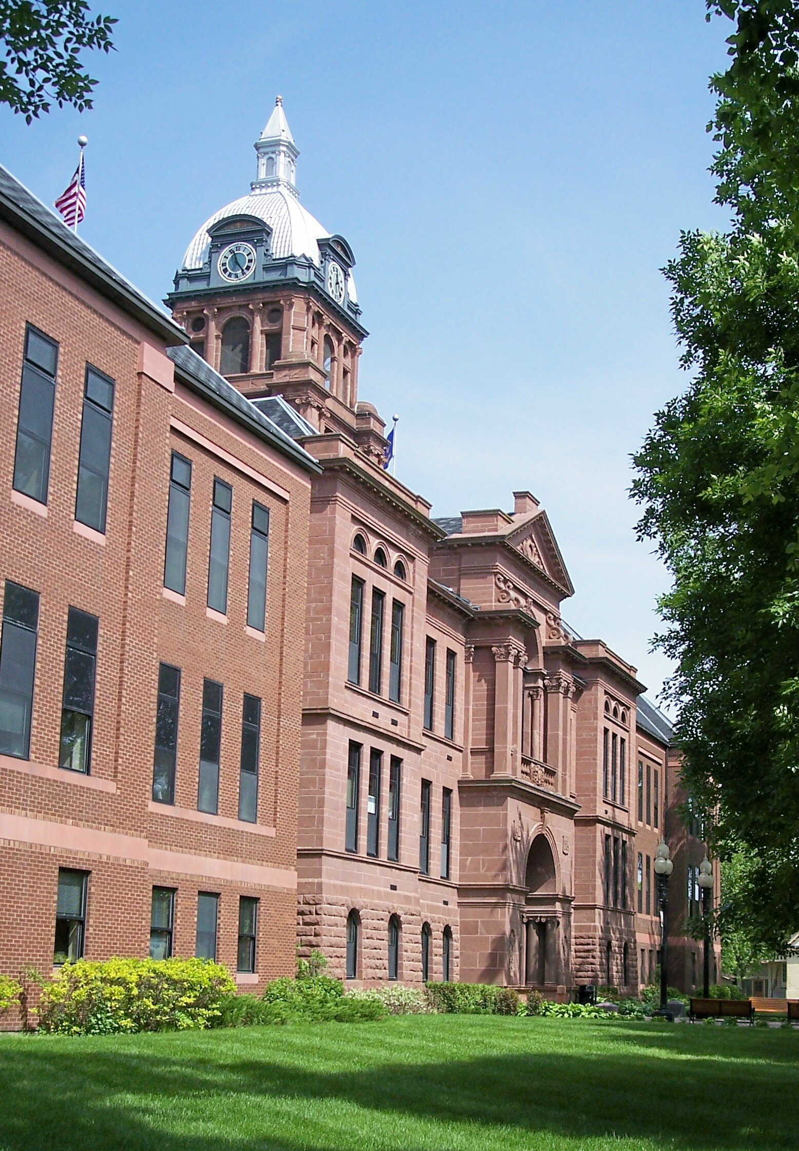 The Cass County Courthouse in Fargo, North Dakota